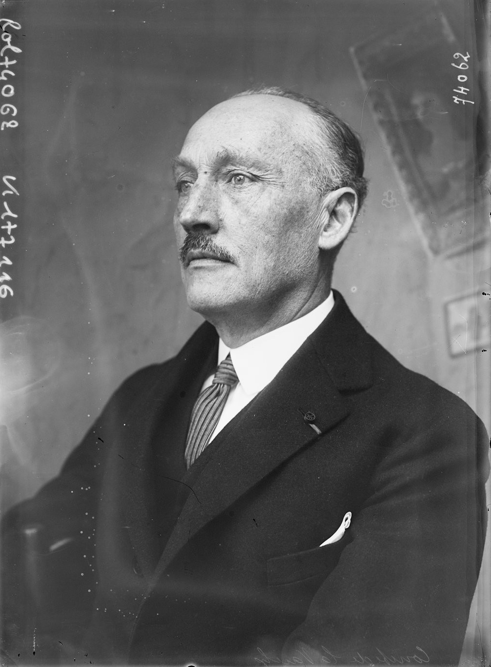 Comte de La Vaulx (aéronaute) - (photographie de presse) - (Agence Rol)